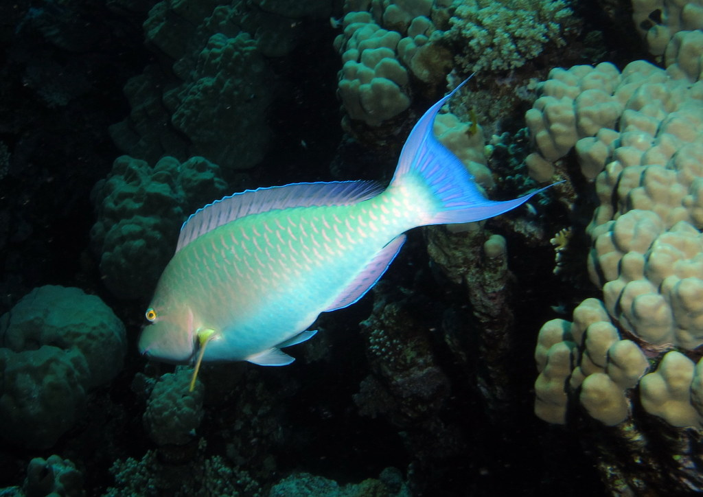 Terminal phase Indian Longnose Parrotfish - closer view - at Gota Abu Ramada, Red Sea, Egypt